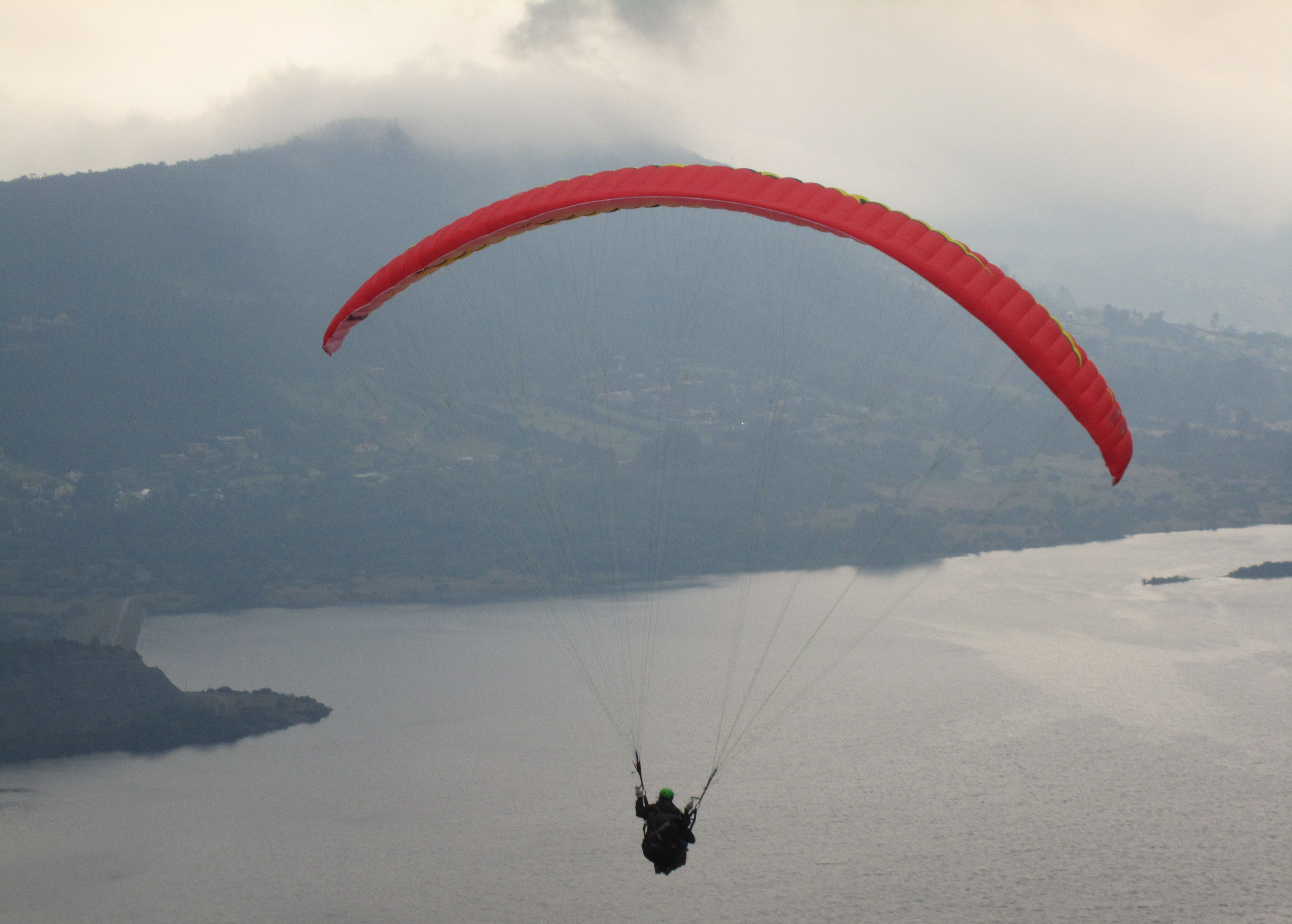 Paragliding over Represa San Rafael above La Calera, Cundinamarca, Colombia